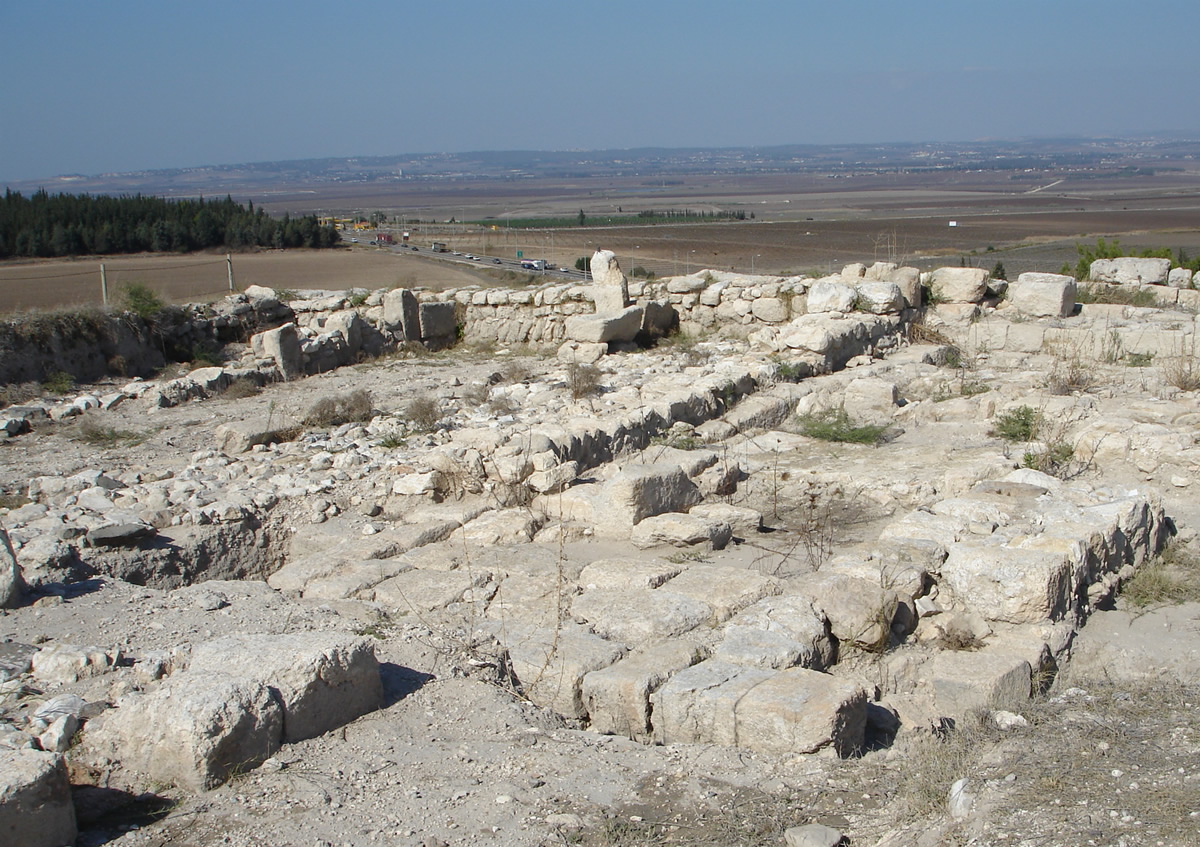 Ruins atop Tel Megiddo, Israel. The modern highway to Haifa is visible in the background.